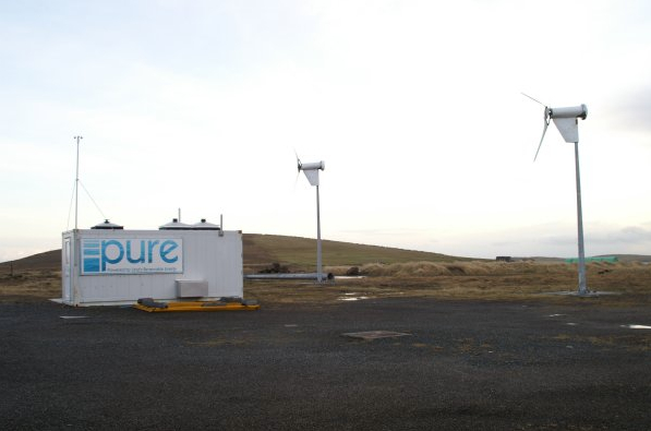 The windmills and hydrogen storage at PURE (Powered by Unst's Renewable Energy) at the Hagdale Industrial Estate, Shetland.